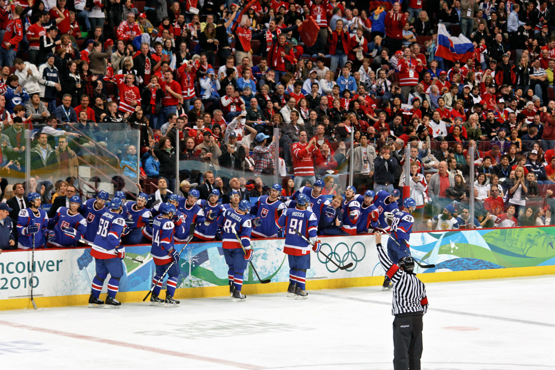 Slovakia celebrates a goal by Marian Hossa during a game against Russia during the 2010 Winter Olympics